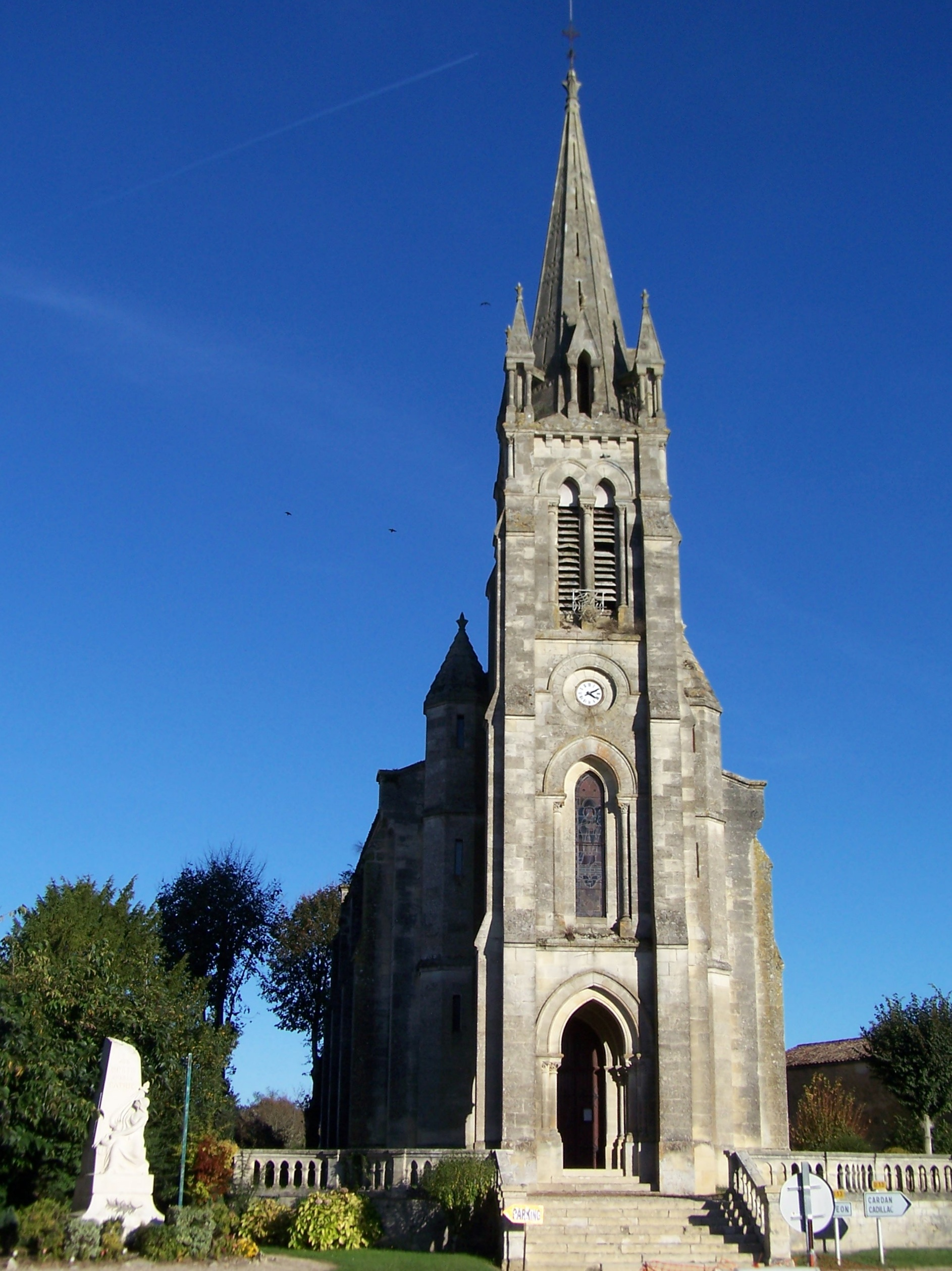 Saint Saturnin church of Capian (Gironde, France)